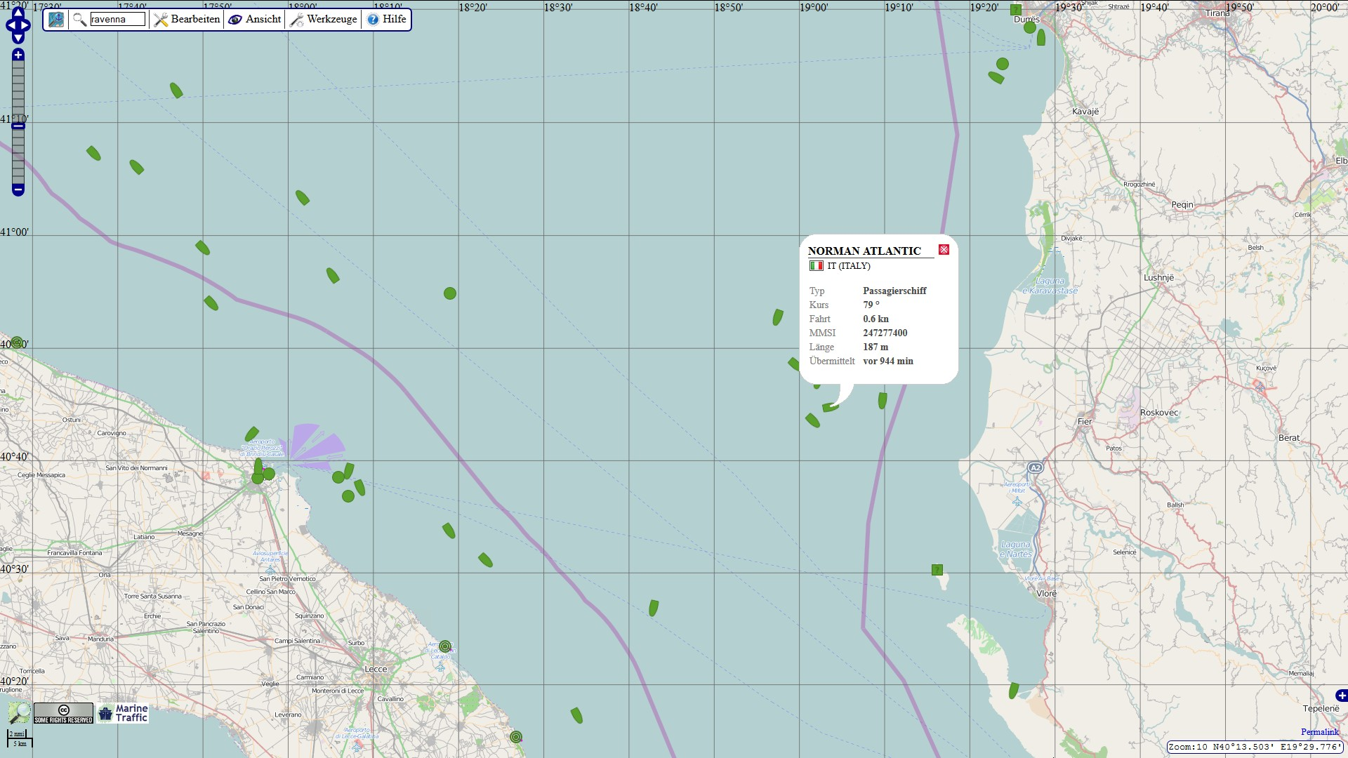 Fire disaster. AIS-Position of ferry "Norman Atlantic" 28.12.2014